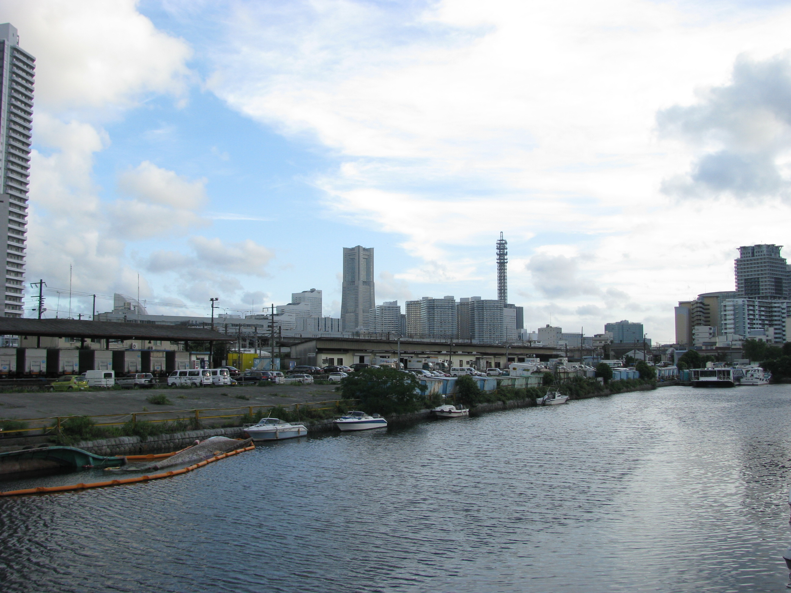 View of Hoshinochō in Kanagawa-ku, Yokohama, Kanagawa Prefecture, Japan.